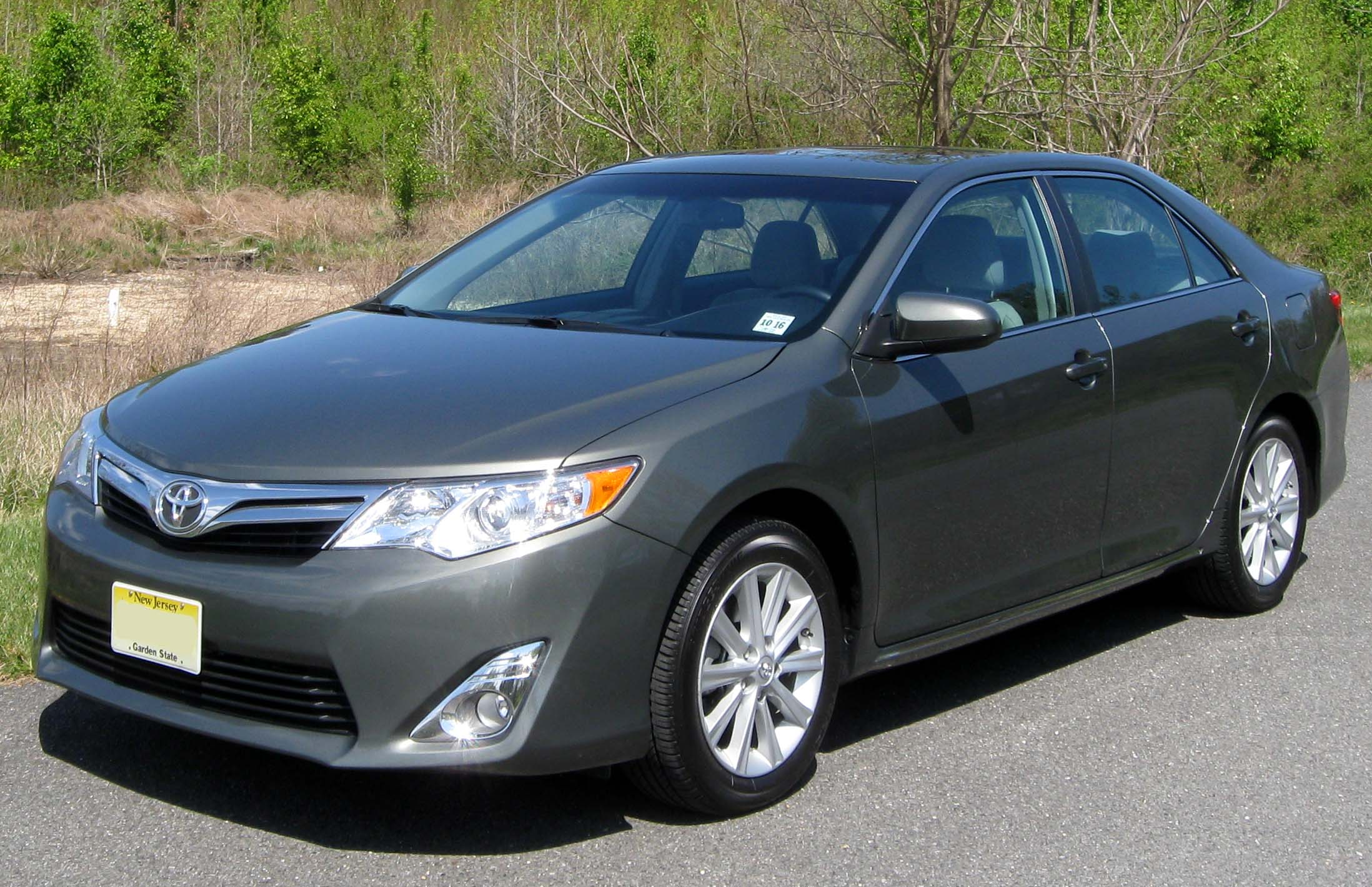 2012 Toyota Camry photographed in Upper Marlboro, Maryland, USA.